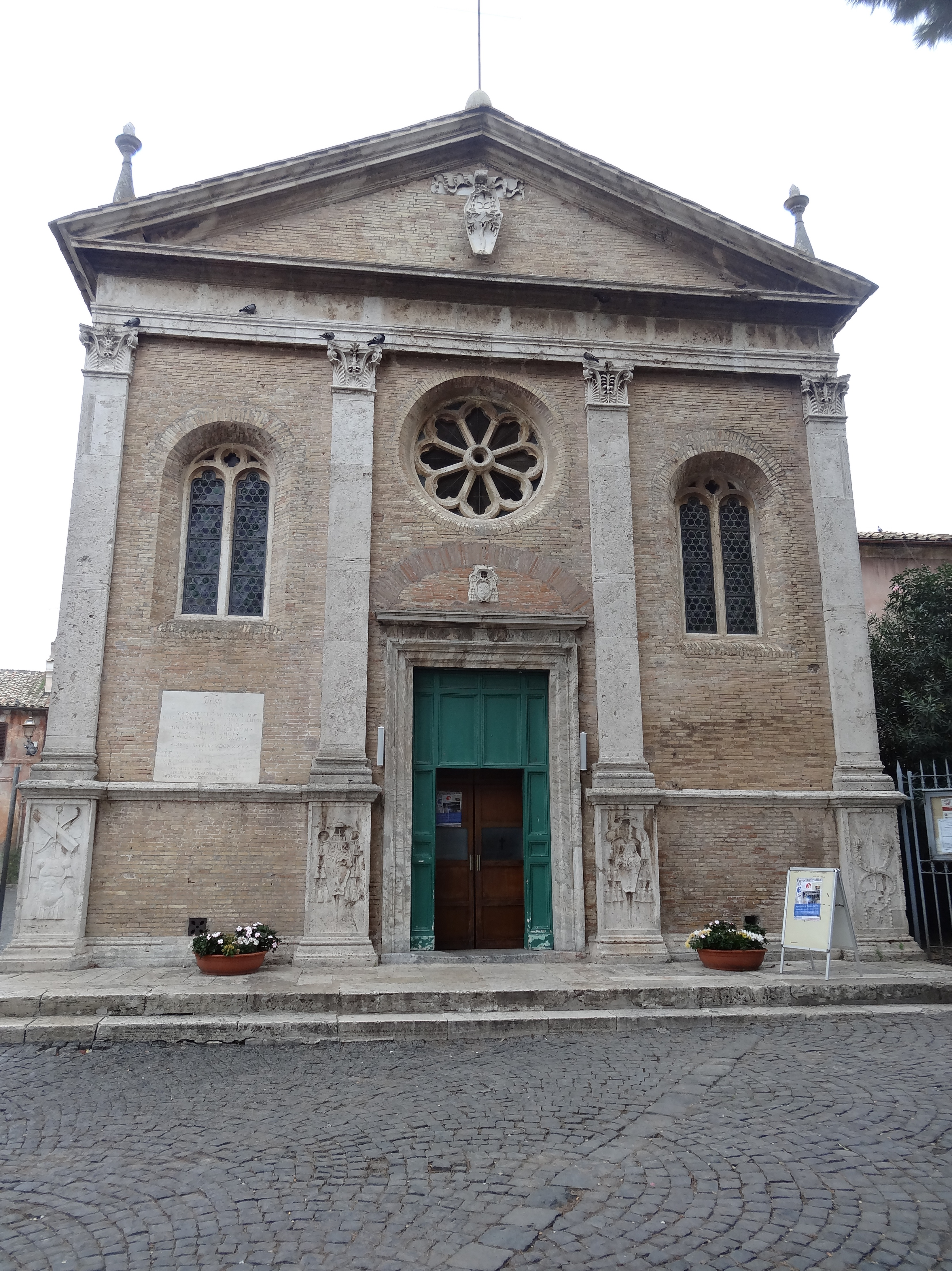 Basilica di Sant'Aurea